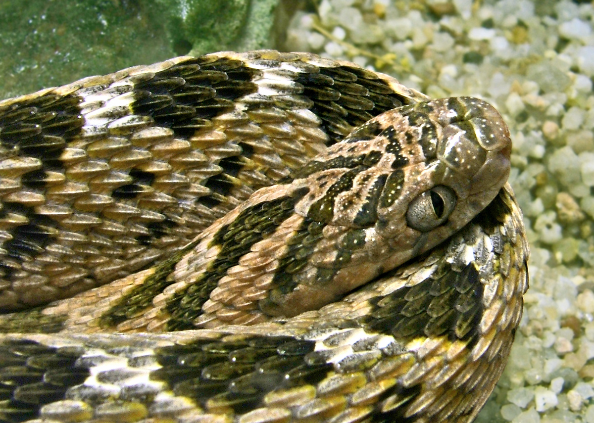 Common Egg-eater, Rhombic Egg-eater